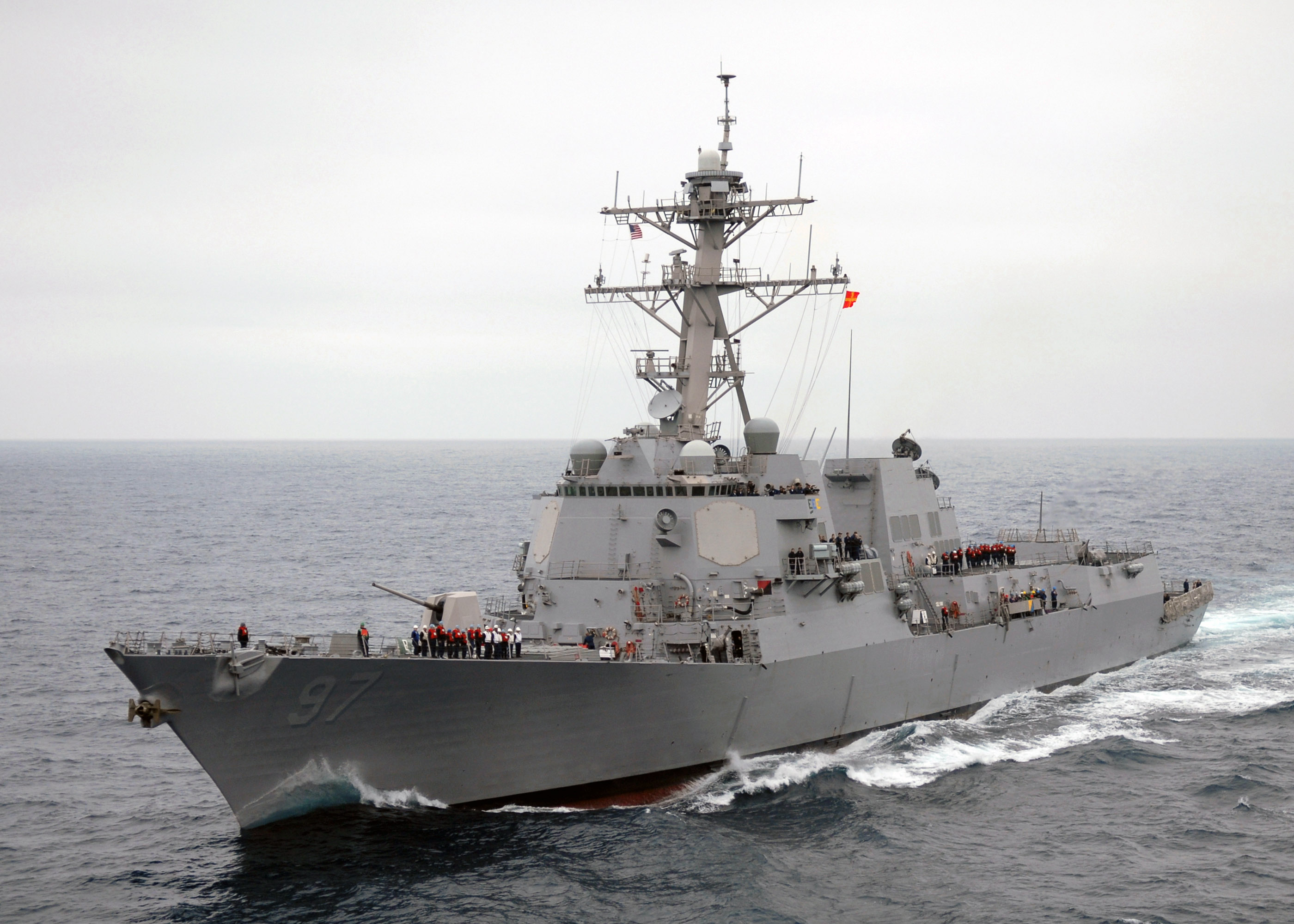 PACIFIC OCEAN (Aug. 11, 2007) - Arleigh Burke-class guided missile destroyer USS Halsey (DDG 97) arrives alongside Nimitz-class aircraft carrier USS Abraham Lincoln (CVN-72) during a fueling at sea (FAS). Lincoln and embarked Carrier Air Wing 2(CVW-2) are underway off the coast of Southern California conducting a Tailored Ship's Training Availability (TSTA).